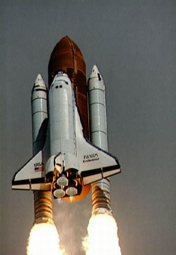 STS-57 Endeavour atop its external tank and flanked by two solid rocket boosters soars into the morning sky after liftoff from Kennedy Space Center Launch Complex Pad 39B. Exhaust plumes pour out the solid rocket booster skirts and the diamond shock effect is visible at the space shuttle main engine nozzles